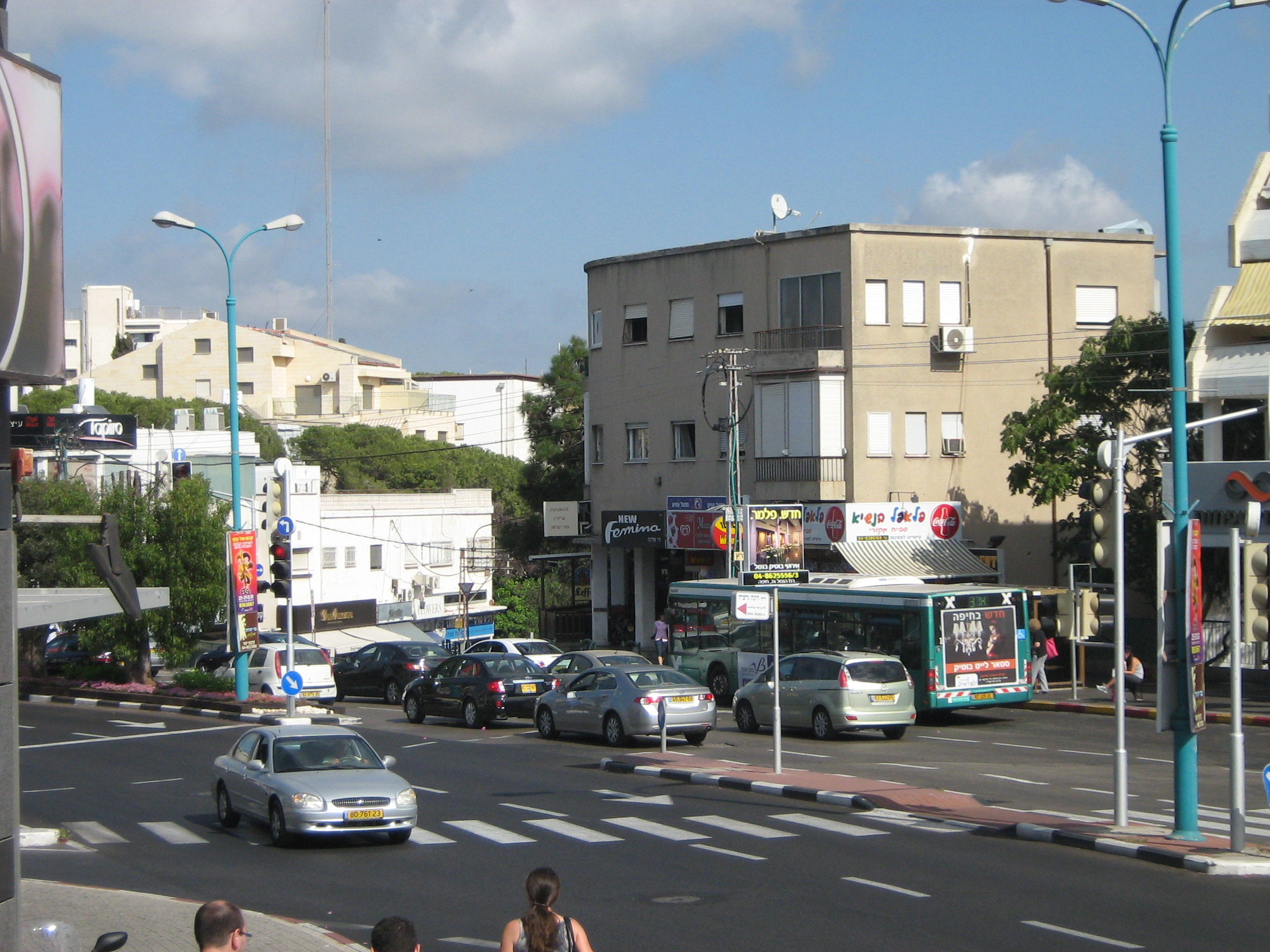 junction in Carmel Centre, below Haifa Auditorium